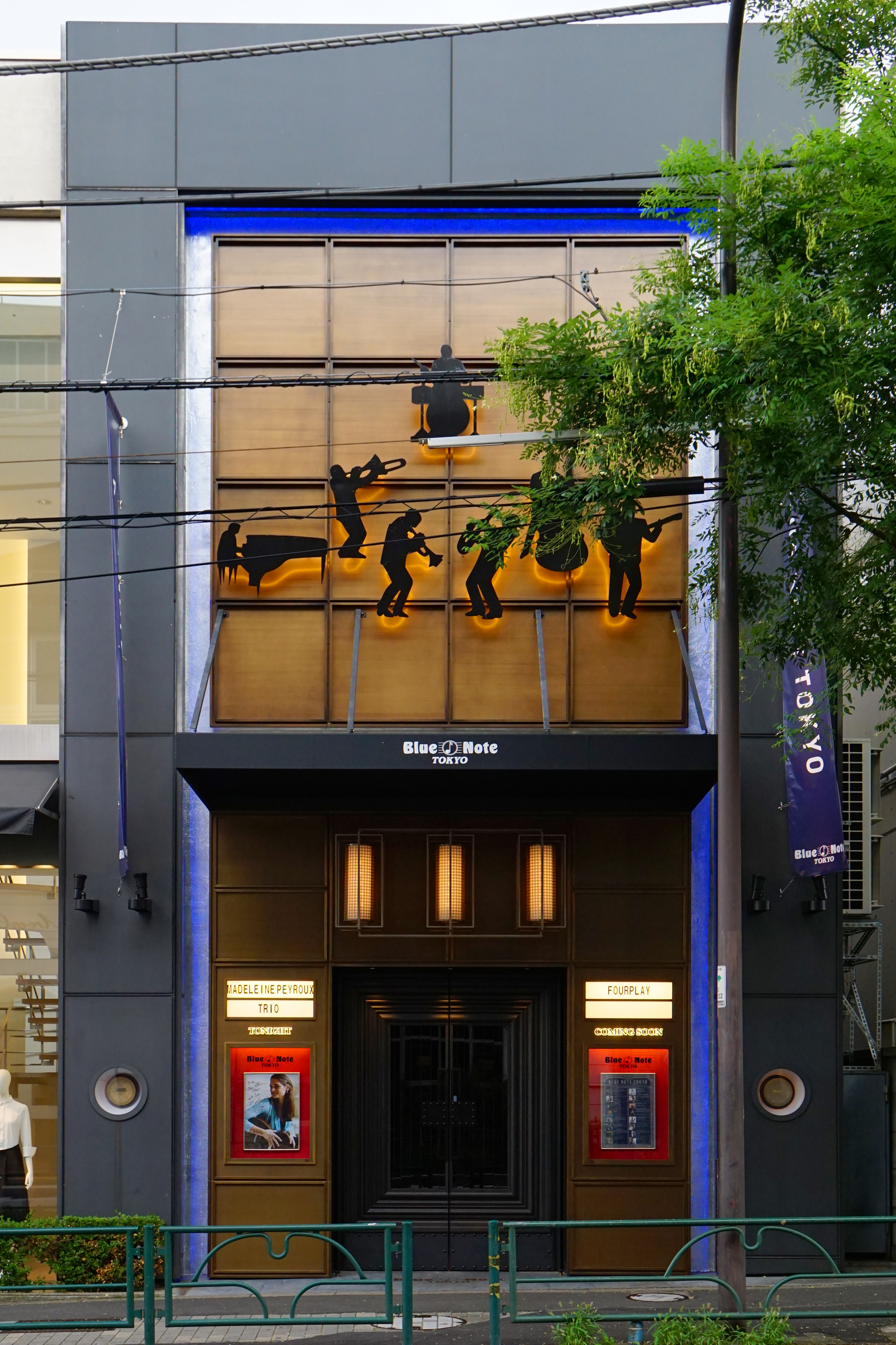 Blue Note Tokyo in Minato-ku, Tokyo, Japan